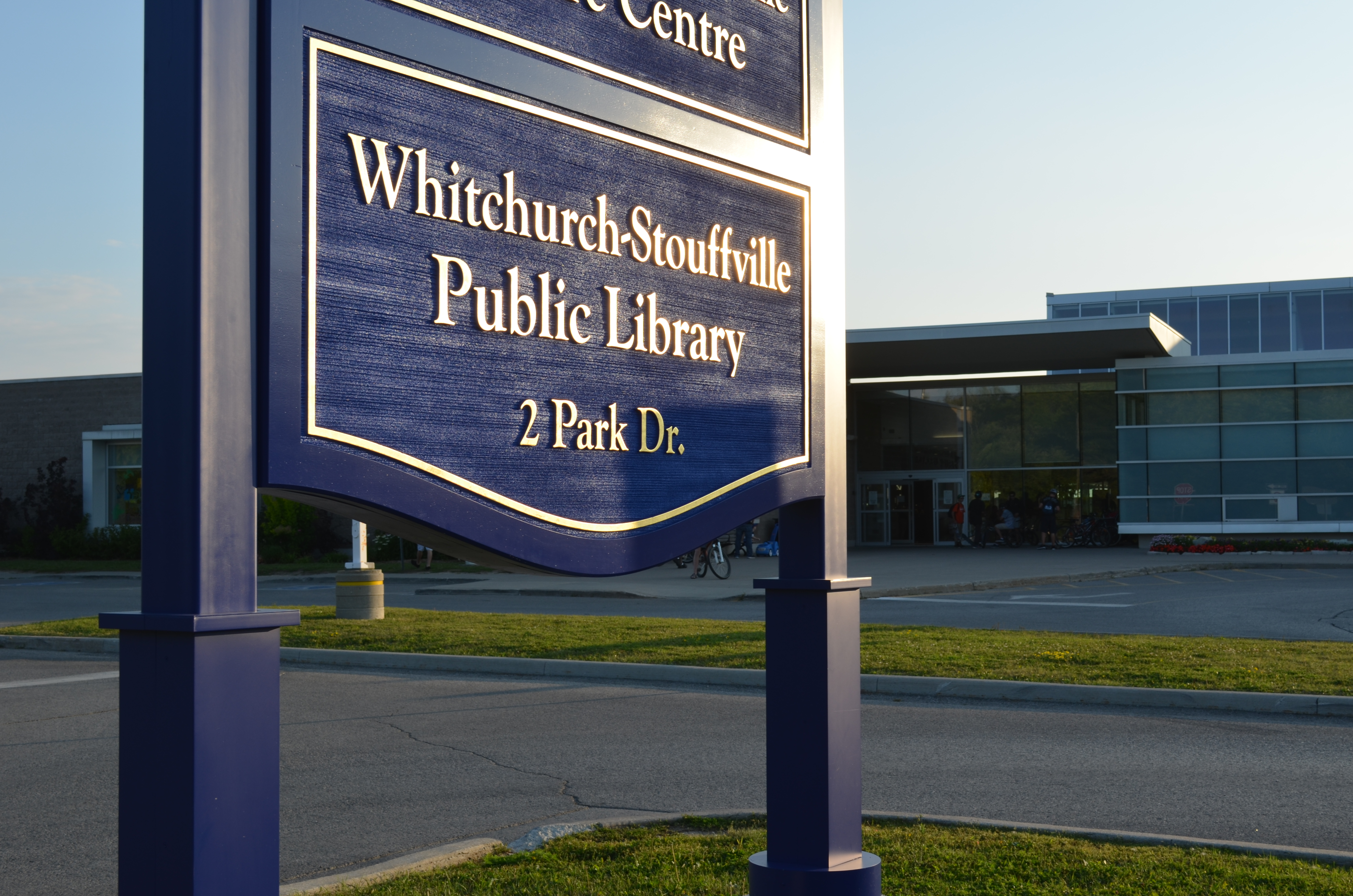 Whitchurch-Stouffville Public Library - 2 Park Drive